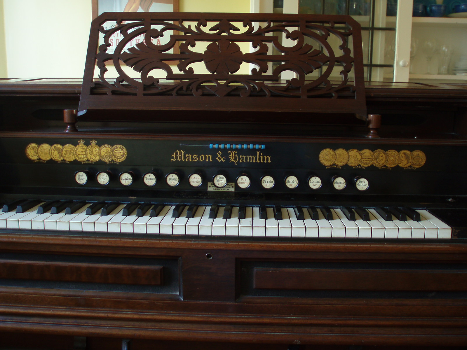 Photograph of the keyboard and stops of an 1895 Mason & Hamlin reed organ